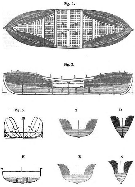 Northumberland Model lifeboat designed by Beedome Peake based on designs submitted by James Beeching and others in 1851.